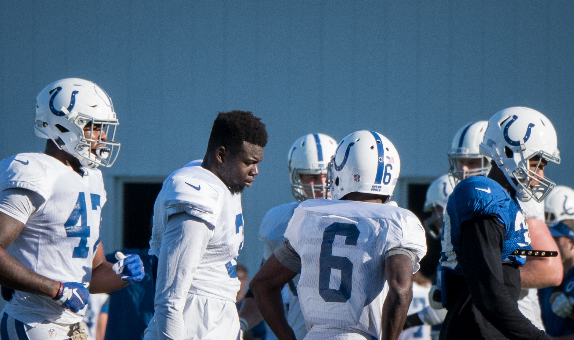 U.S. Department of Agriculture (USDA) Secretary Sonny Perdue and retired football great and NFL Hall-of-Famer Marshall Faulk, talk about USDA’s role in the NFL’s Fuel Up to Play 60 program, and the importance of milk nutrition and physical fitness; the students talk about how they have encourage others to include physical activity in their lives, schools and community; all the while the Indianapolis Colts football players are training on the adjacent football fields, at the Indiana Farm Bureau Football Center, in Indianapolis, IN, on August 8, 2017. U.S. Secretary of Agriculture Sonny Perdue is on a five-state RV tour, featuring stops in five states: Wisconsin, Minnesota, Iowa, Illinois, and Indiana; titled the “Back to Our Roots” Tour, he is gathering input on the 2018 Farm Bill and increasing rural prosperity, Aug. 3-8, 2017. Along the way, Perdue will meet with farmers, ranchers, foresters, producers, students, governors, Members of Congress, U.S. Department of Agriculture (USDA) employees, and other stakeholders. This is the first of two RV tours the secretary will undertake this summer. “The ‘Back to our Roots’ Farm Bill and rural prosperity RV listening tour will allow us to hear directly from people in agriculture across the country, as well as our consumers – they are the ones on the front lines of American agriculture and they know best what the current issues are,” Perdue said. “USDA will be intimately involved as Congress deliberates and formulates the 2018 Farm Bill. We are committed to making the resources and the research available so that Congress can make good facts-based, data-driven decisions. It’s important to look at past practices to see what has worked and what has not worked, so that we create a farm bill for the future that will be embraced by American agriculture in 2018.” For social media purposes, Secretary Perdue’s Twitter account (@SecretarySonny) will be using the hashtag #BackToOurRoots. USDA Photo by Lance Cheung.